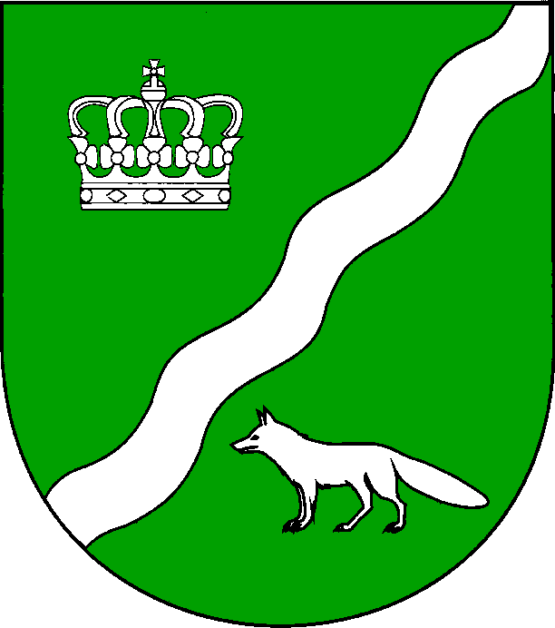 Coat of arms of the municipality Friedrichsgraben in Schleswig-Holstein, Germany.